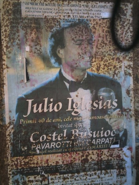 Poster for a Julio Iglesias gig in Iasi, Romania